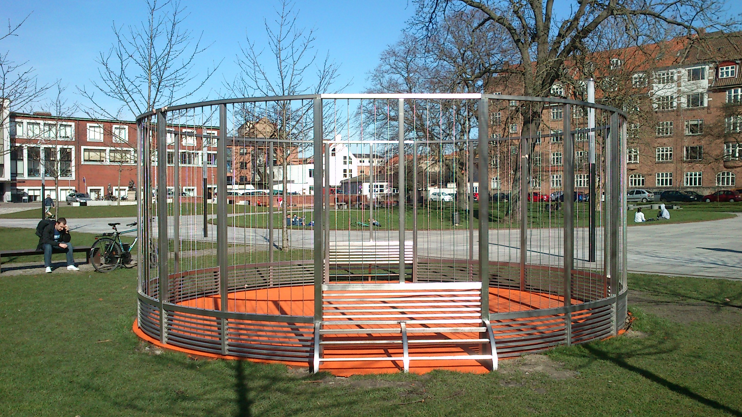 A panna cage in Mølleparken, Aarhus.